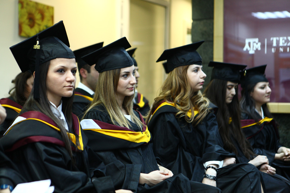 Graduates of the MAB program of the Agribusiness Teaching Center